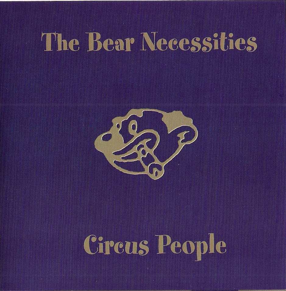 The Bear Necessities CIRCUS PEOPLE Front Cover